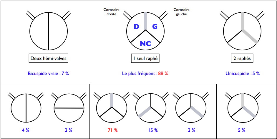 differents anatomi forms of bicuspidy of the aortic valve